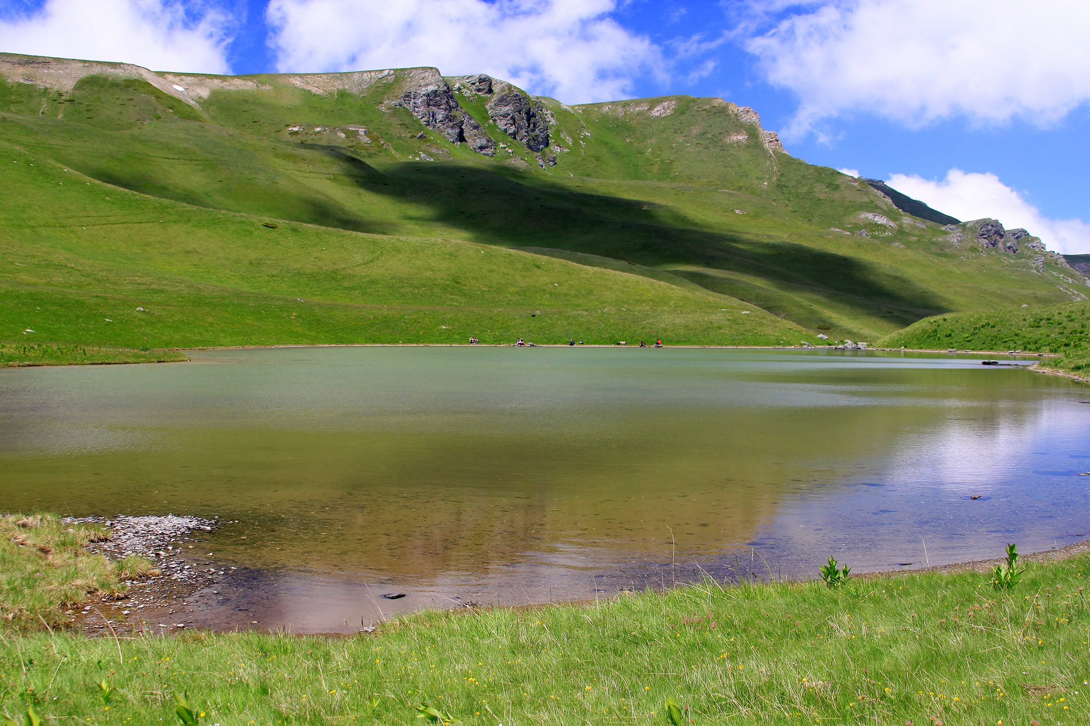 Big lake of Shutman. In the summer this lake shrinks to the size of just couple of meters.